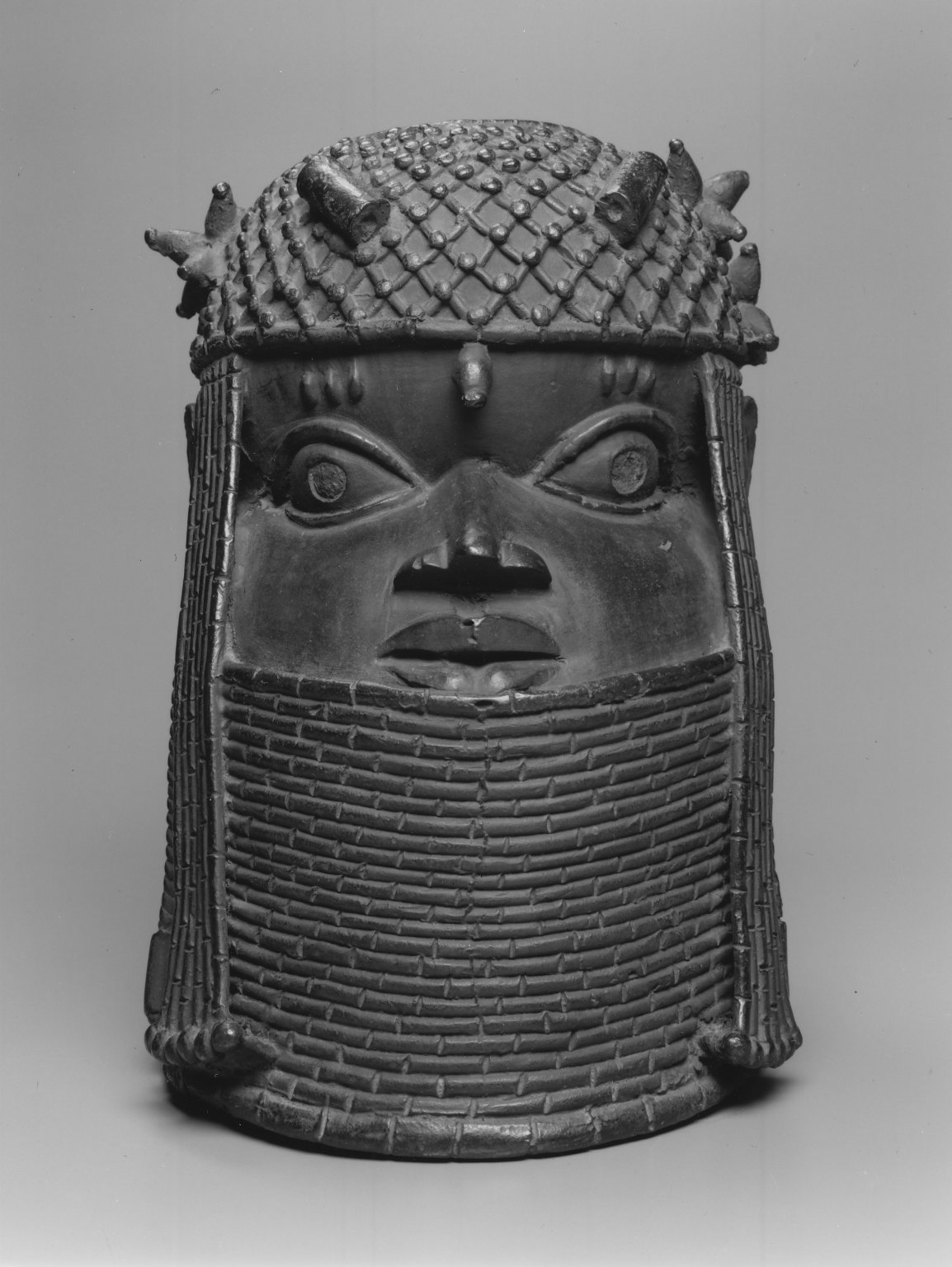 One of the first duties of a new Edo oba, or king, is to establish an altar to his father and commission artists to create objects to adorn it. The altar serves both as a tribute to the deceased oba and a point of contact with his spirit. This cast-brass head would have been placed on such an altar. Its red color and shiny surface make it both beautiful frightening, appropriate attributes for a powerful monarch. The high collar and beaded headpiece represent the coral-beaded costume worn by reigning obas.